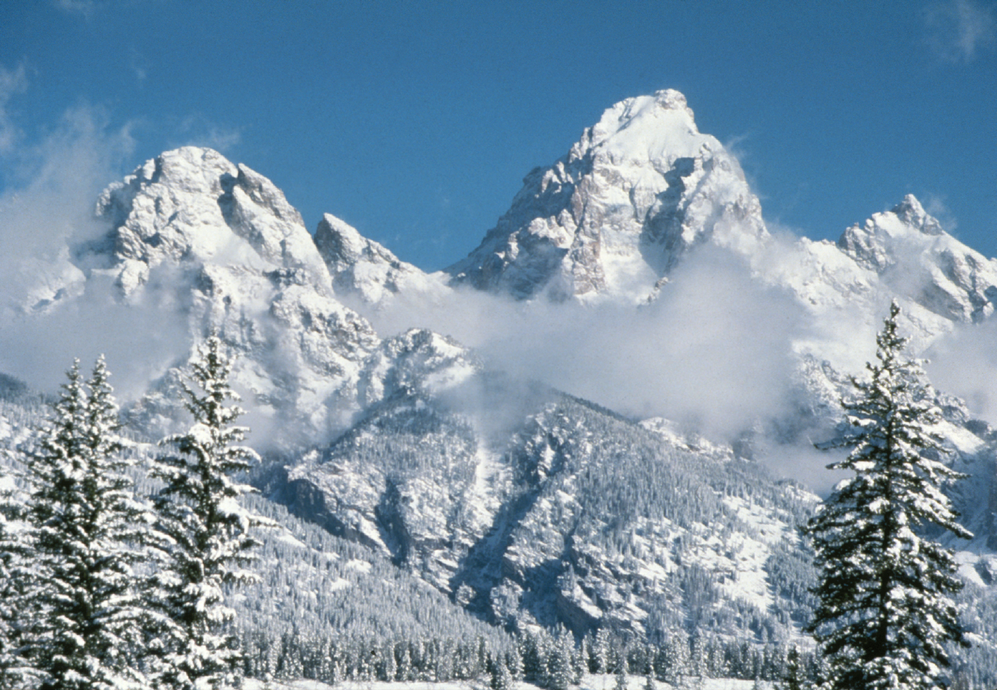 United States National Park Service photo of the Grand Tetons, in Wyoming